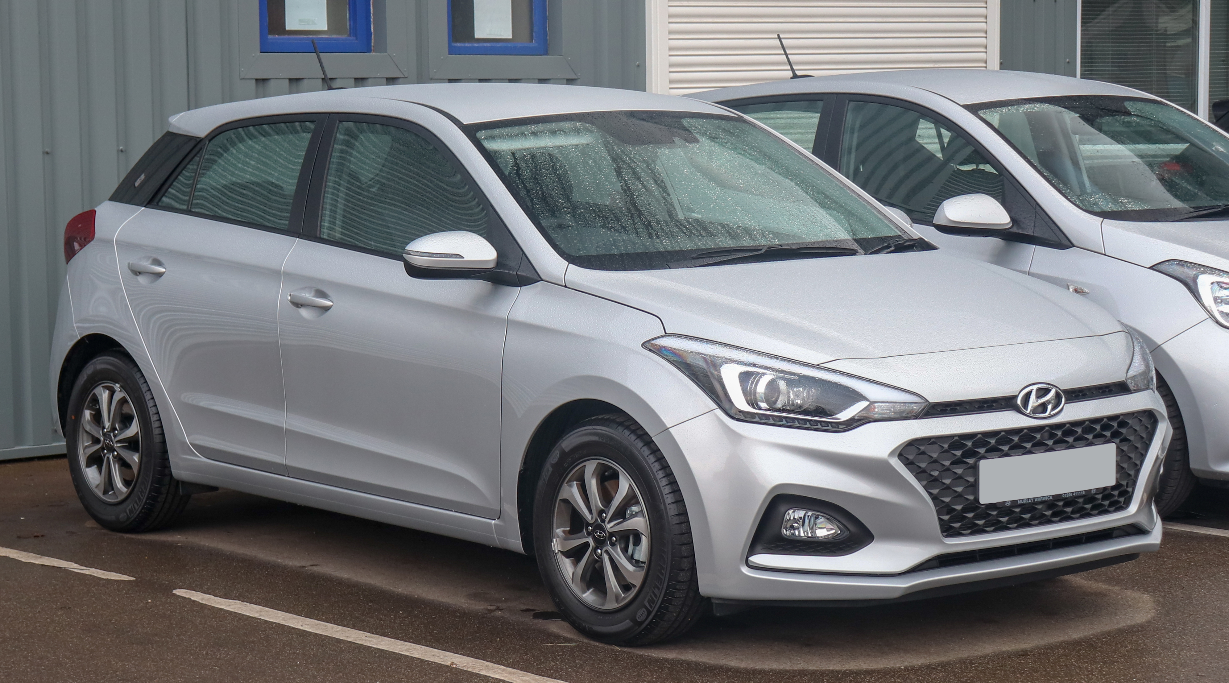 2018 Hyundai i20 SE T-GDi 1.0 Taken in Warwick